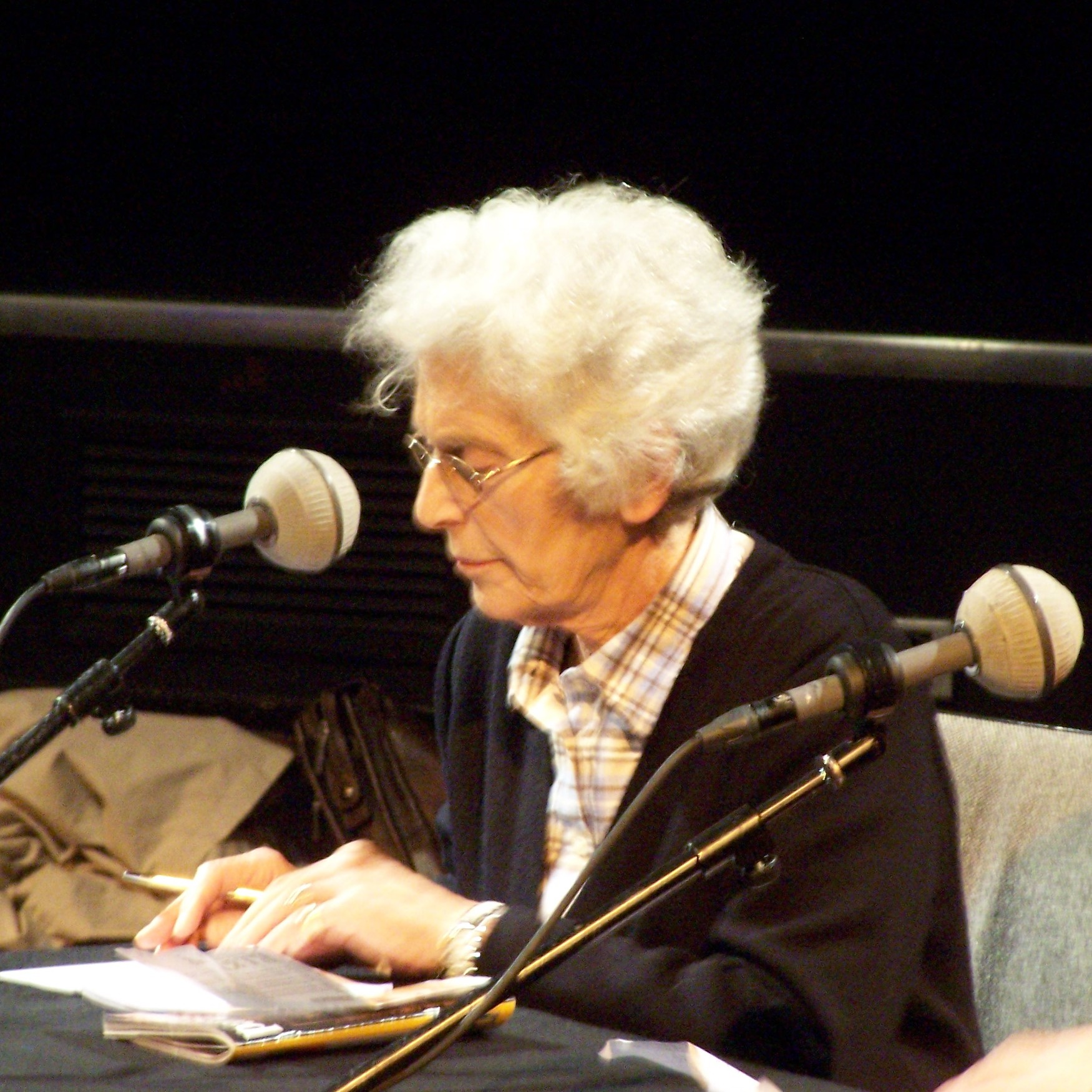 French critic Danièle Heymann at the radioshow Le Masque et la Plume on Nov 15th 2012 (aired on Nov 18th 2012).